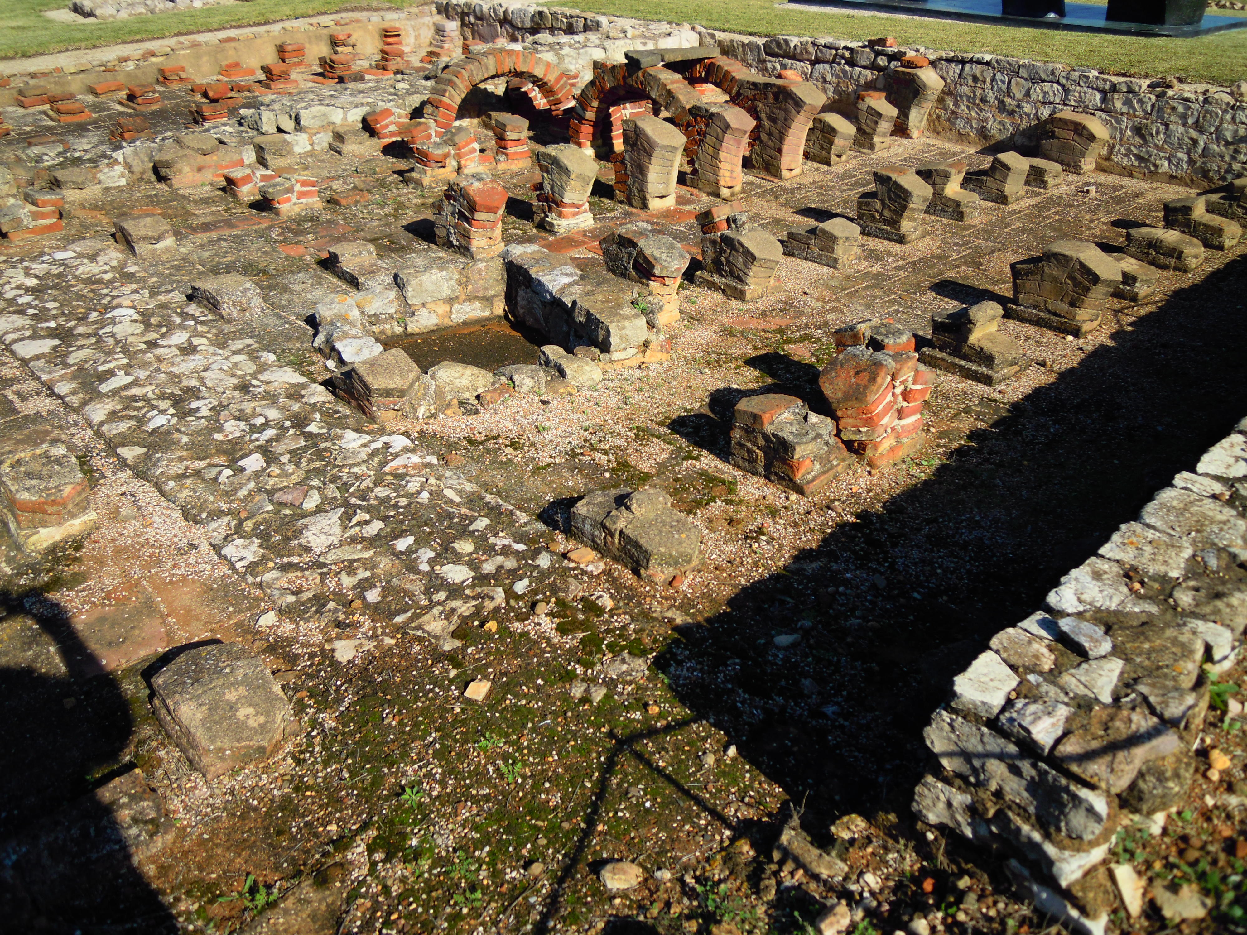 The south west corner of the Roman Ruins of the Villa at Cerro da Vila in the resort of Vilamoura, Loule, Algarve, Portugal. The Caldarium e tepidarium, these rooms contained a spa complex with hot baths and lukewarm baths an area used for personal hygiene. This monument is classified as Imóvel de Interesse Público.